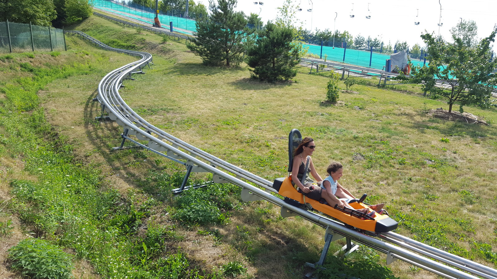 A rollercoaster in Park Szczesliwicki, Warsaw, Poland